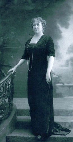 Frances Stephens (1851–1915). Sunk twice by U-20. Once on the Lusitania, and again when her body was being returned to the US.